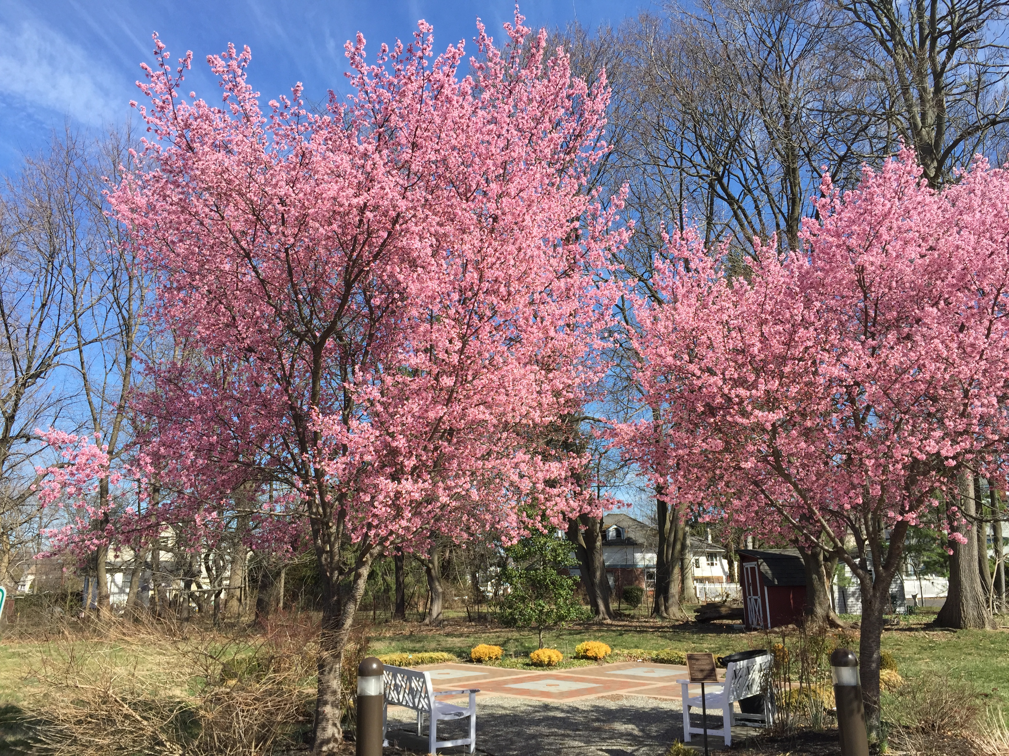 Okame Cherries blooming at the Lawrence Road Presbyterian Church in Lawrence, New Jersey